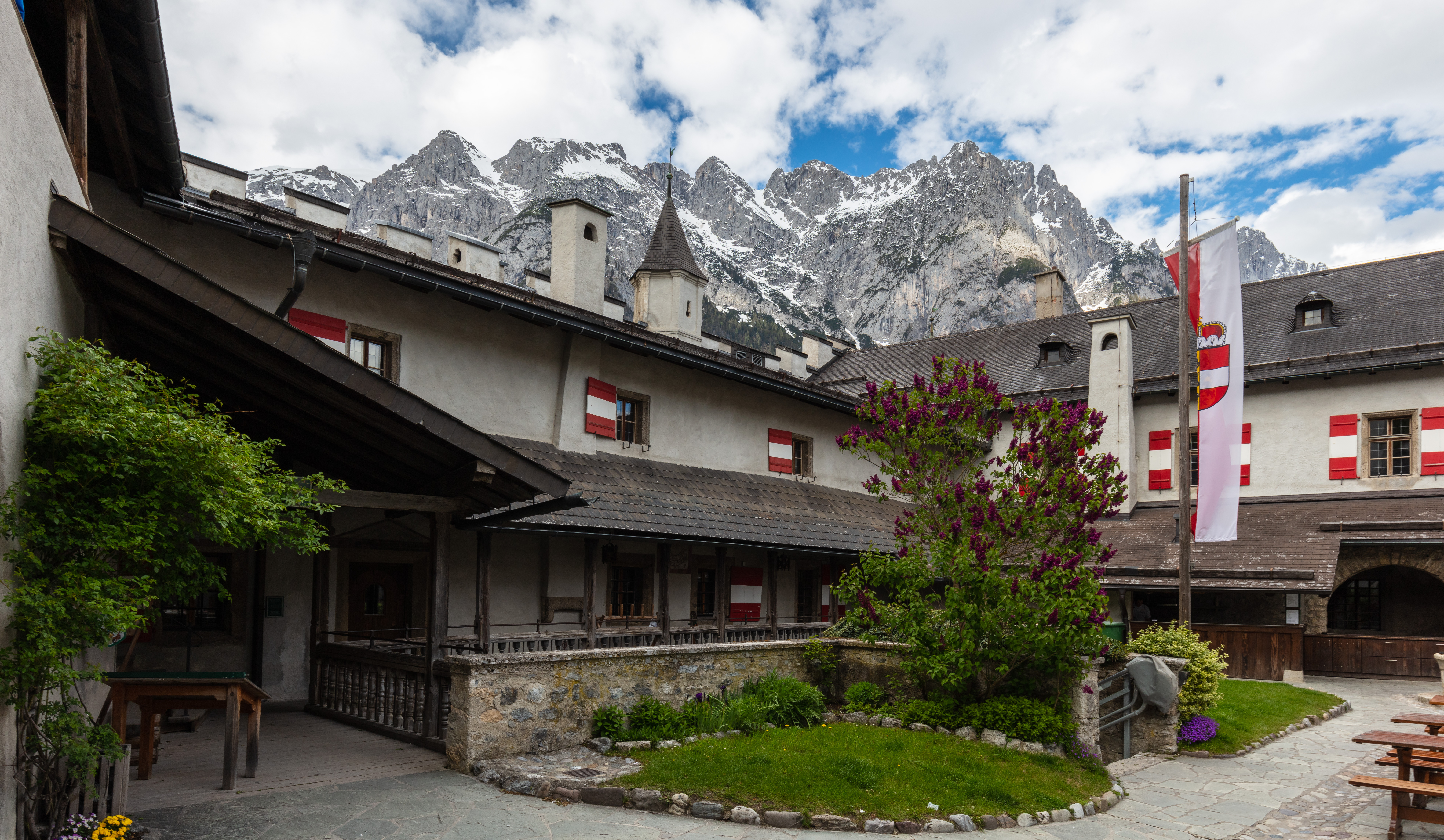 Castle Hohenwerfen, Werfen, Austria